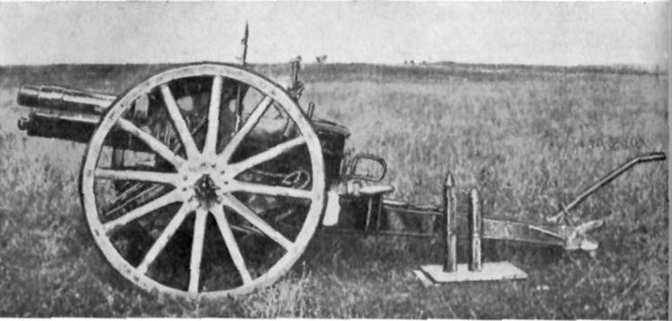 Photograph of German 7.7 cm FK 96 n.A. with ammunition.